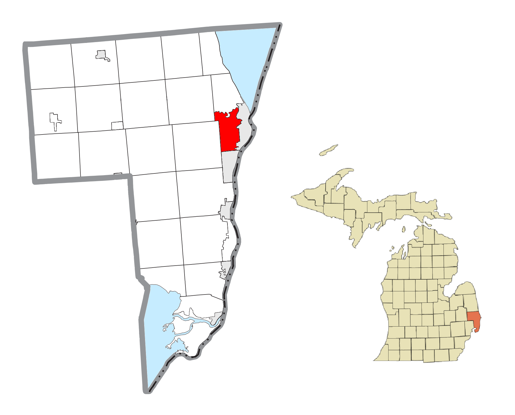 Port Huron Charter Township, MI